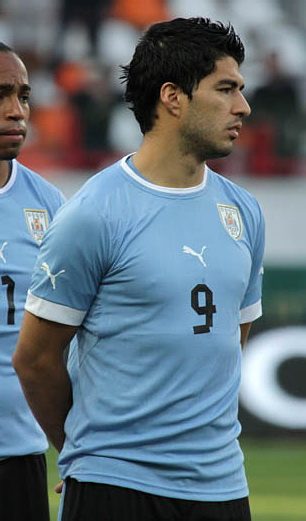 Luis Suárez